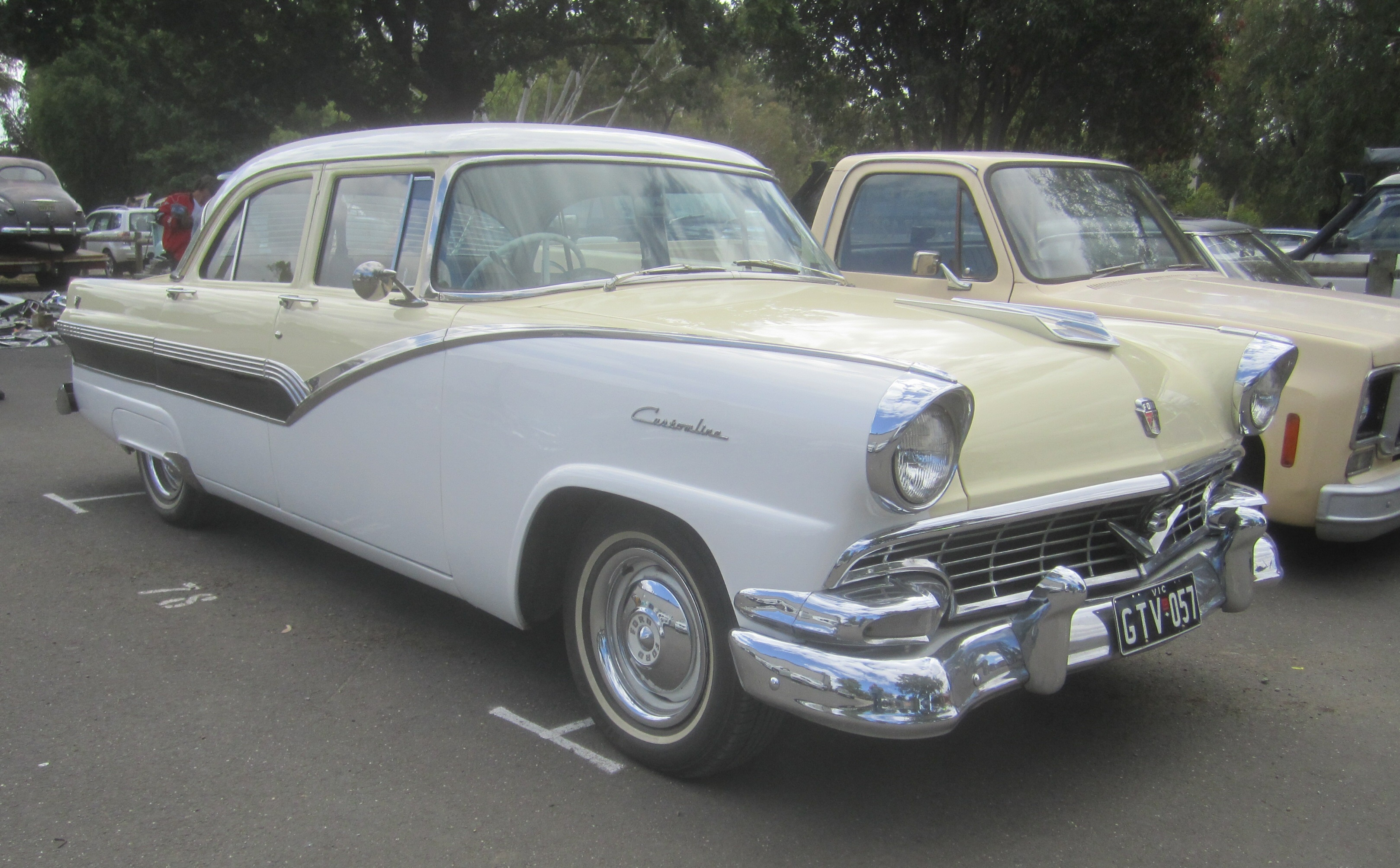 V8 Customline Sedans and Mainline Utilitys were built in Australia from 1952-59. The 1955-56 shape continued on through 1957-58 in Australia. The grille in the 57 was the same as 1956, but the side stainless steel trim was different. The final series , known as the Star model, utilized the grille from 1955 Meteor of Canada. Engines; 223 6 cyl OHV or 162hp 272 and 193hp 292 Y block V8s